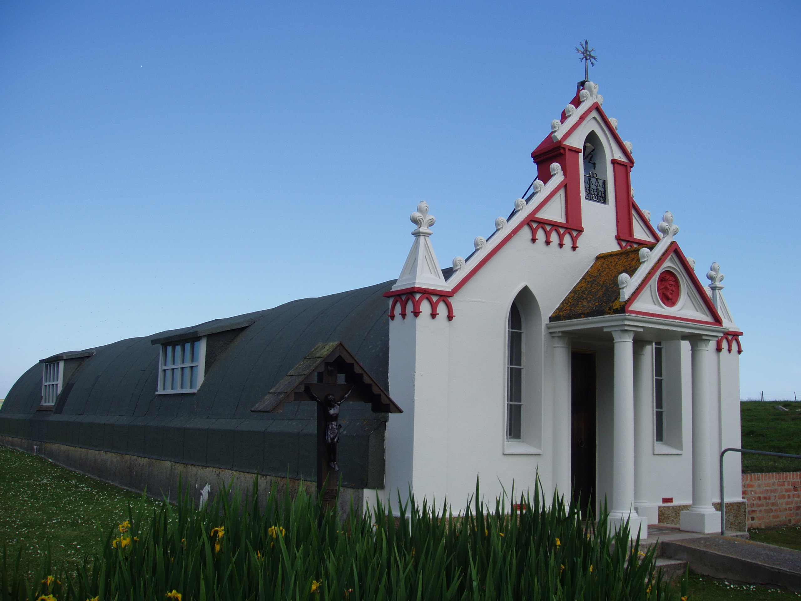 Front quarter profile of the Italian Chapel on the small isle called Lamb Holm. This is located on the edge of Scapa Flow in the Orkney Islands (north of Great Britain). The chapel was built by WWII Italian prisoners of war captured in North Africa and put to work on the Churchill Barriers in the Orkney Islands. Using the limited materials they had leftover from the barrier project, the prisoners converted two nissin huts into this chapel. Much of the artistic work was done by Domenico Chiocchetti who returned to finish his work after the war ended.